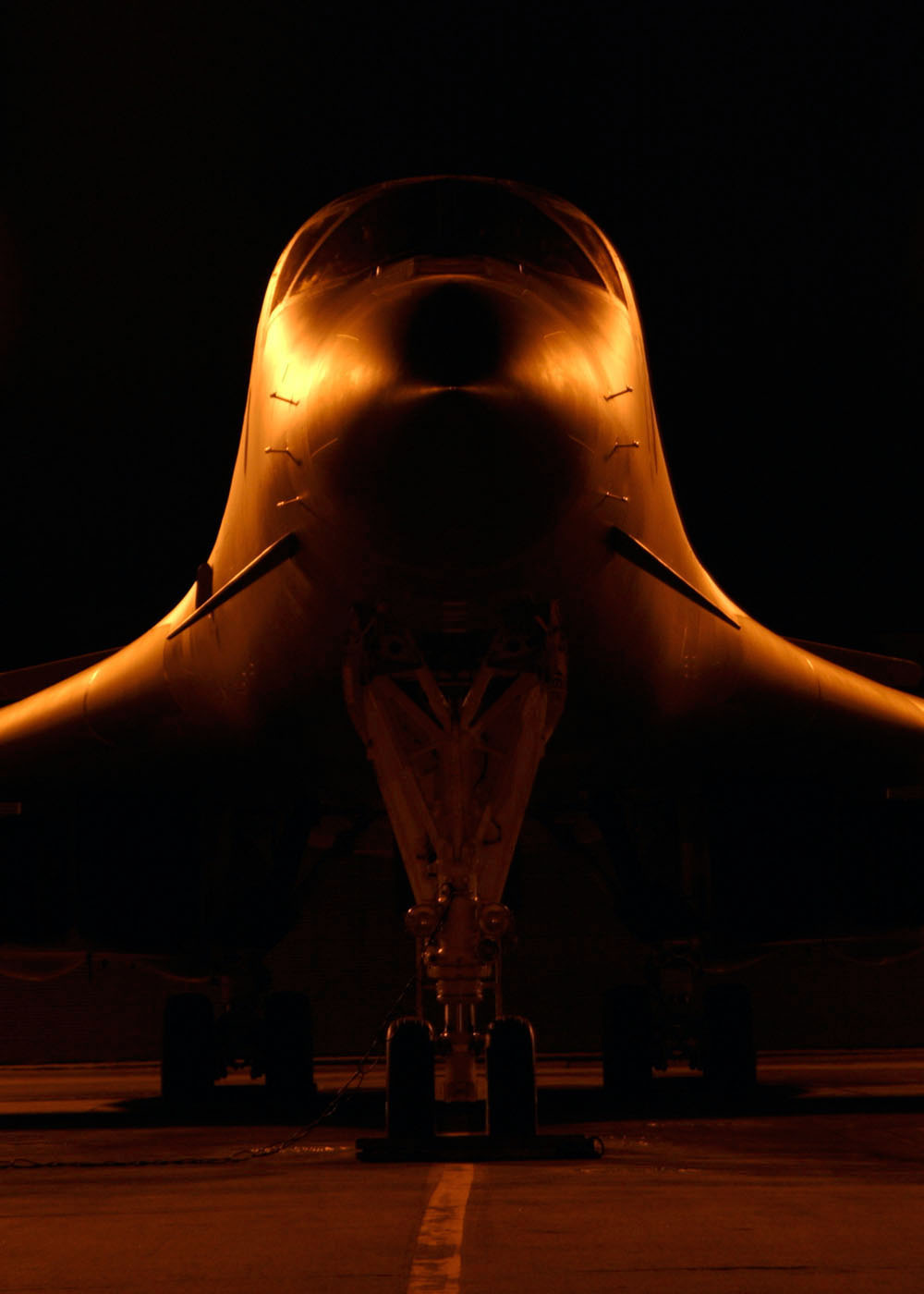 A B1-B of the 28th Bomb Wing at Ellsworth AFB